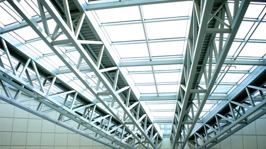 The Disperce at MCI